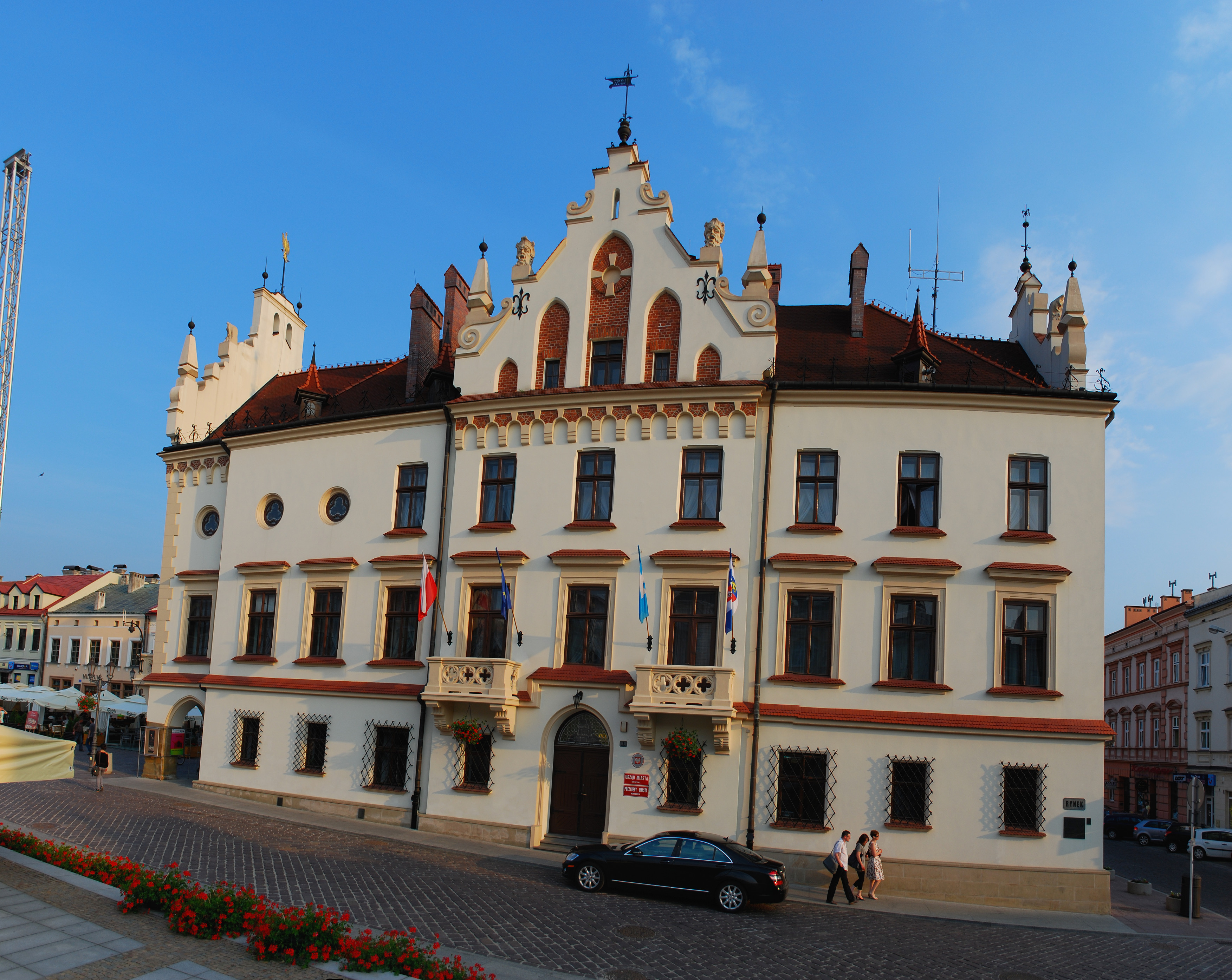 City hall in Rzeszow, PolandRomână: Primăria din Rzeszow, Polonia